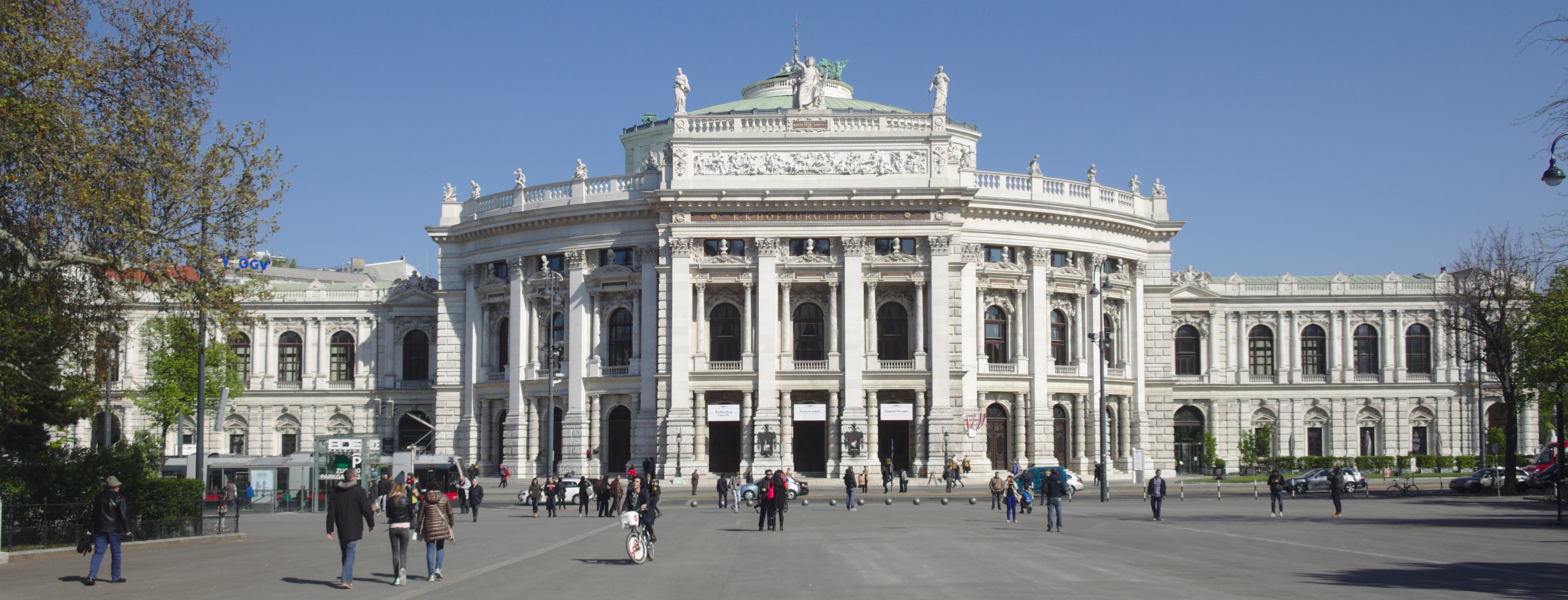 Burgtheater Dieses Bild wurde anlässlich des österreichischen Tags des Denkmals 2014 in Wien eingereicht.